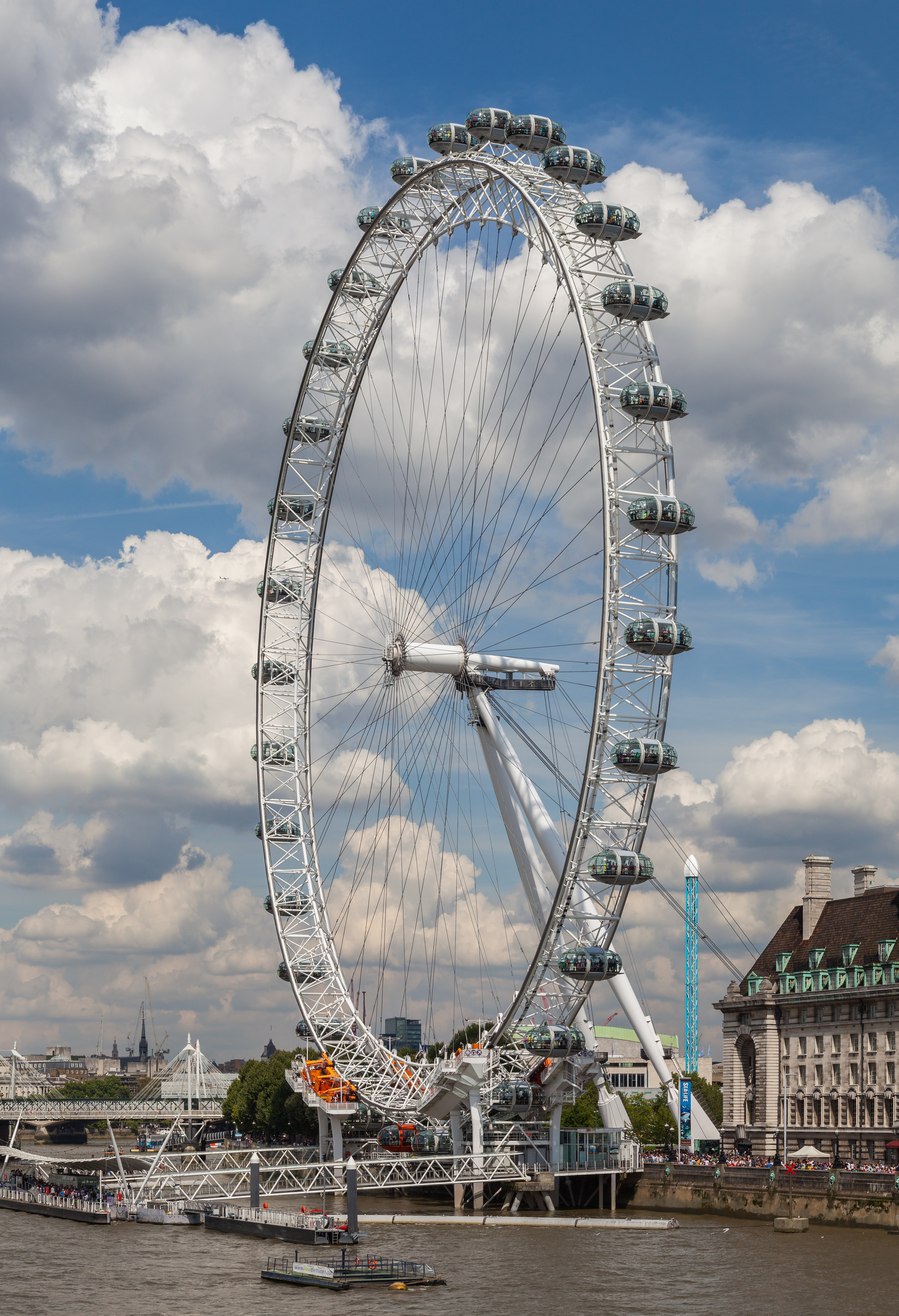 London Eye, London, England